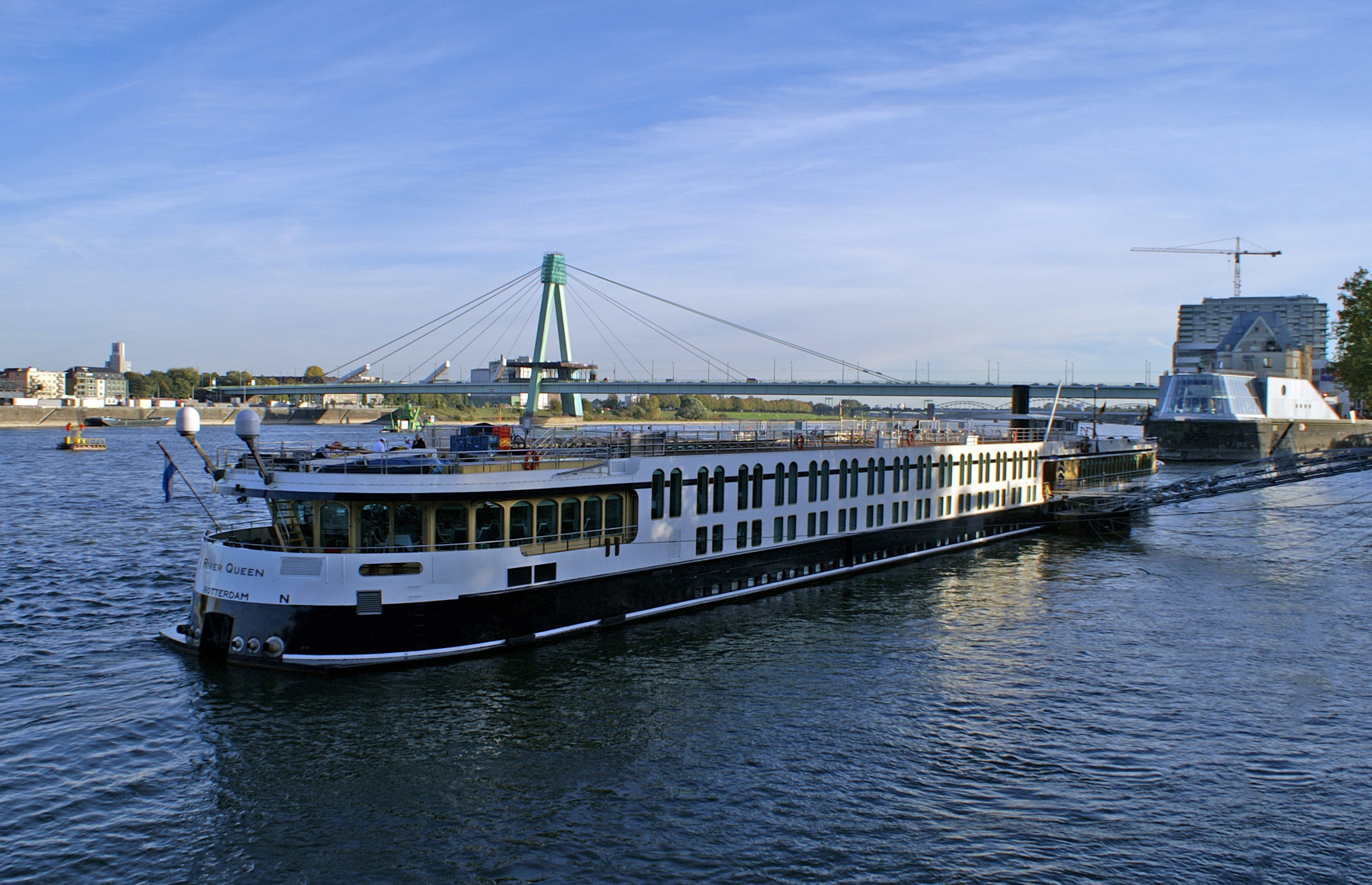 MS River Queen at the jetty in cologne.